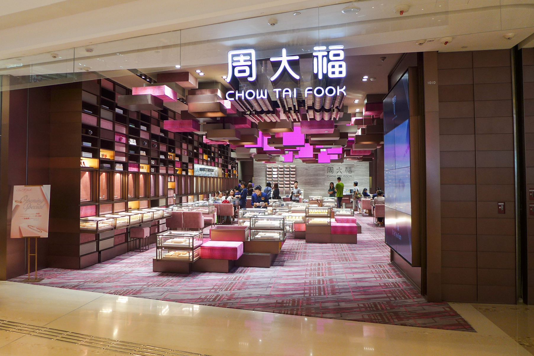 Chow Tai Fook concept store in YOHO Mall